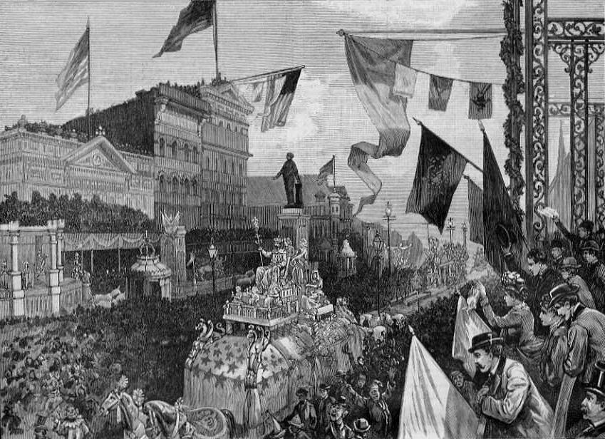 The Carnival at New Orleans, a wood engraving drawn by John Durkin and published in Harper's Weekly, March 1885.